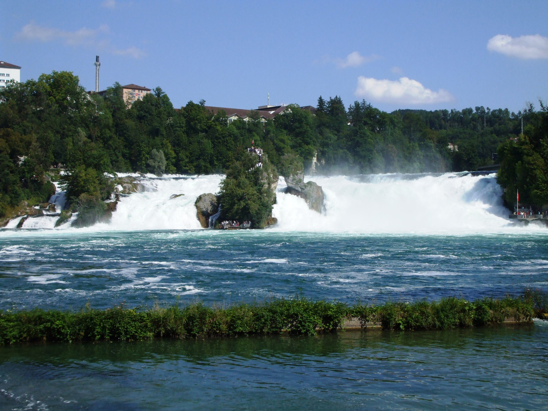 The Rheinfall at Neuhausen - CH